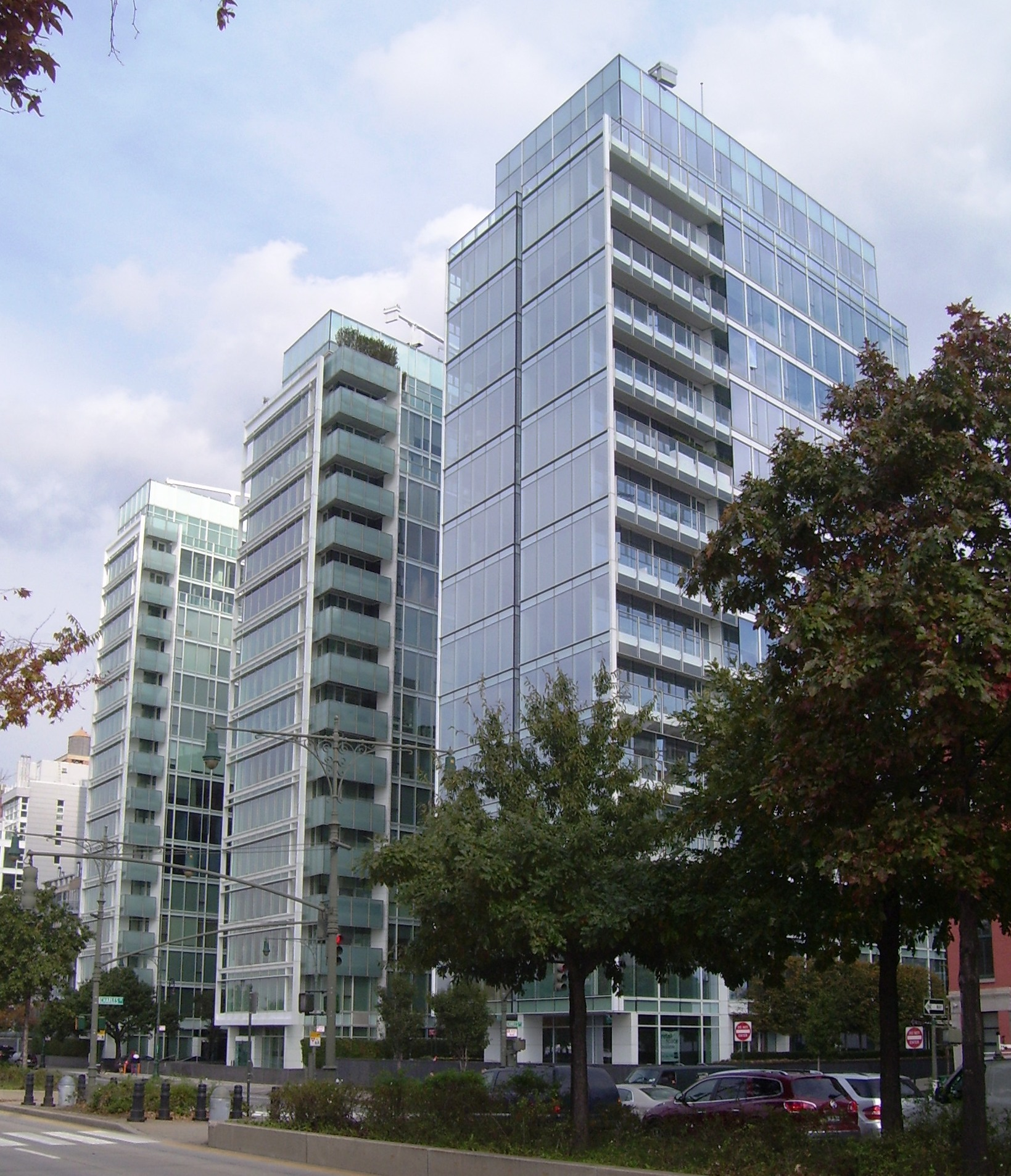 173 & 176 Perry Street (two towers on left), built in 2001, and 165 Charles Street (tower on right), built in 2004, are located along West Street in the West Village neighborhood of Manhattan, New York City, and were designed by Richard Meier.